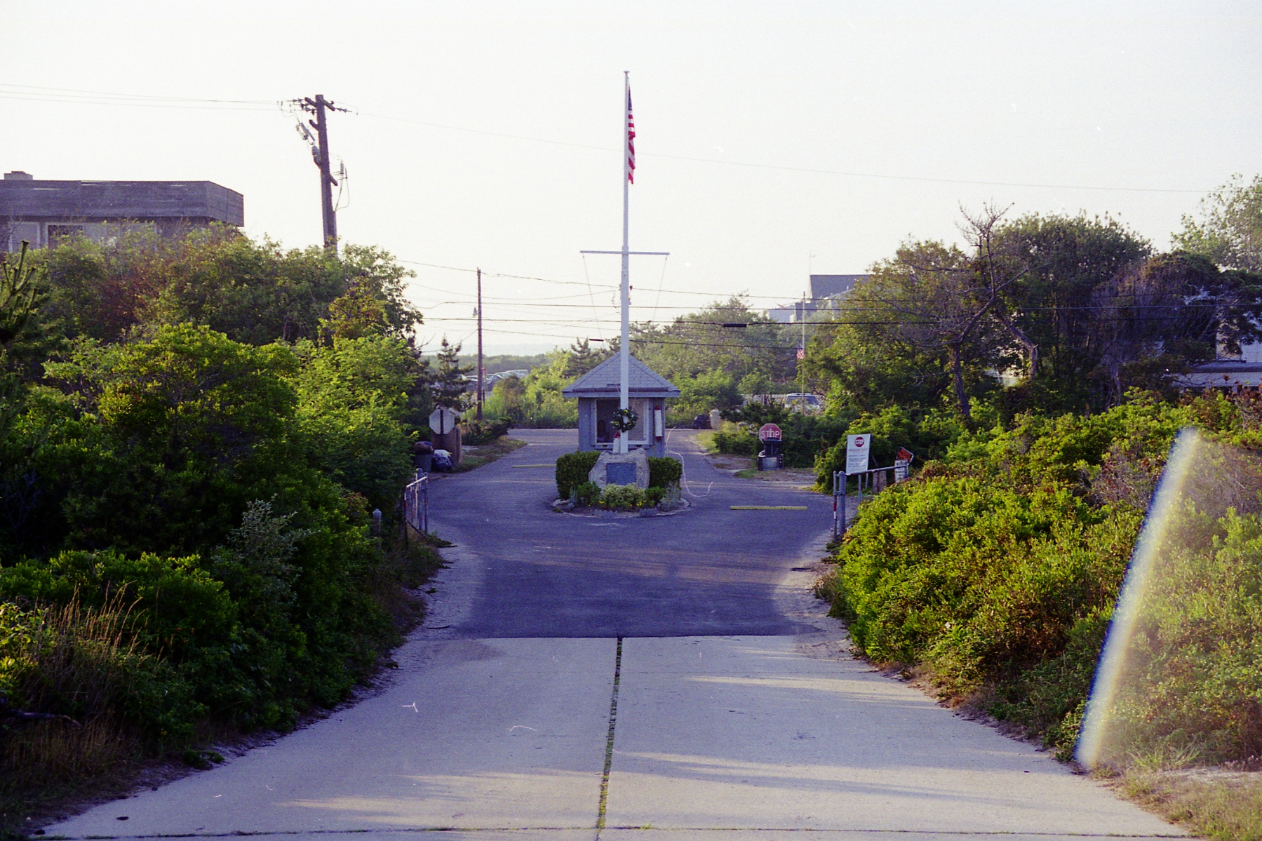 West Gilgo Beach, New York, USA. Main entrance